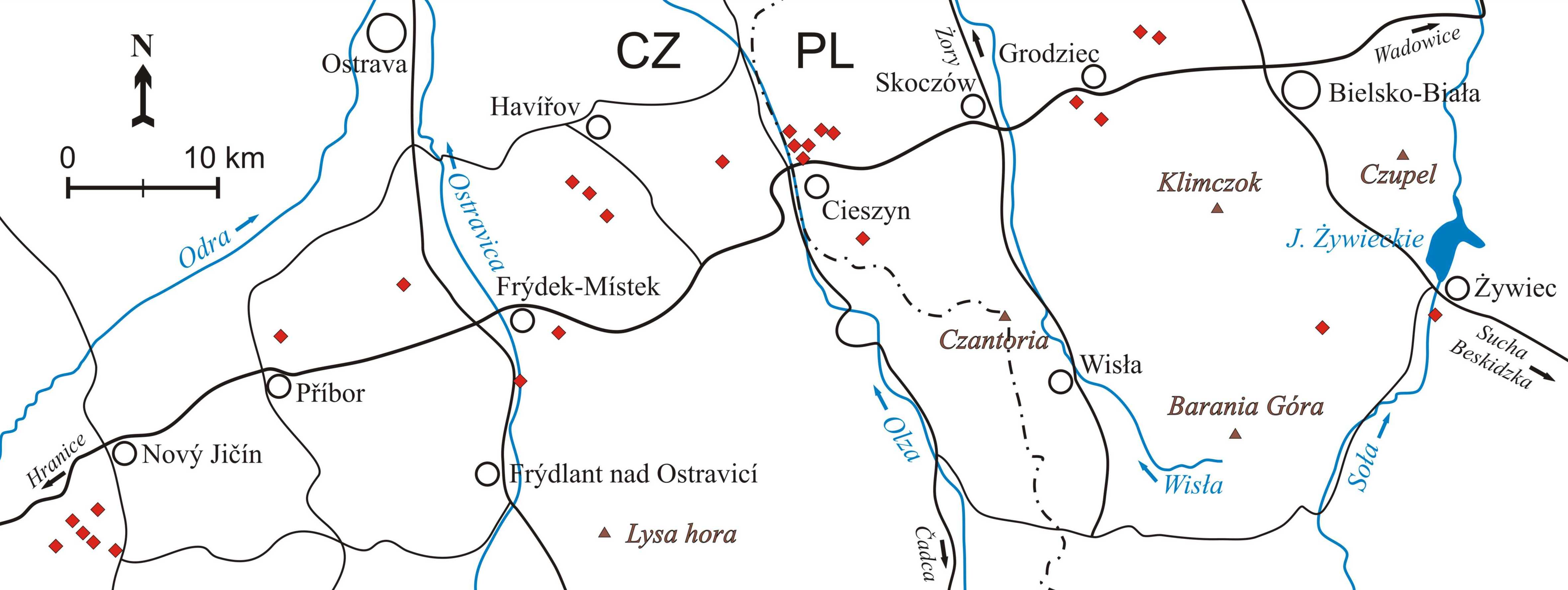 The sketch map of the Cieszyn-Silesia (Śląsk Cieszyński) and Morawy region with location of the most important outcrops of so-called “teschenite rocks”.